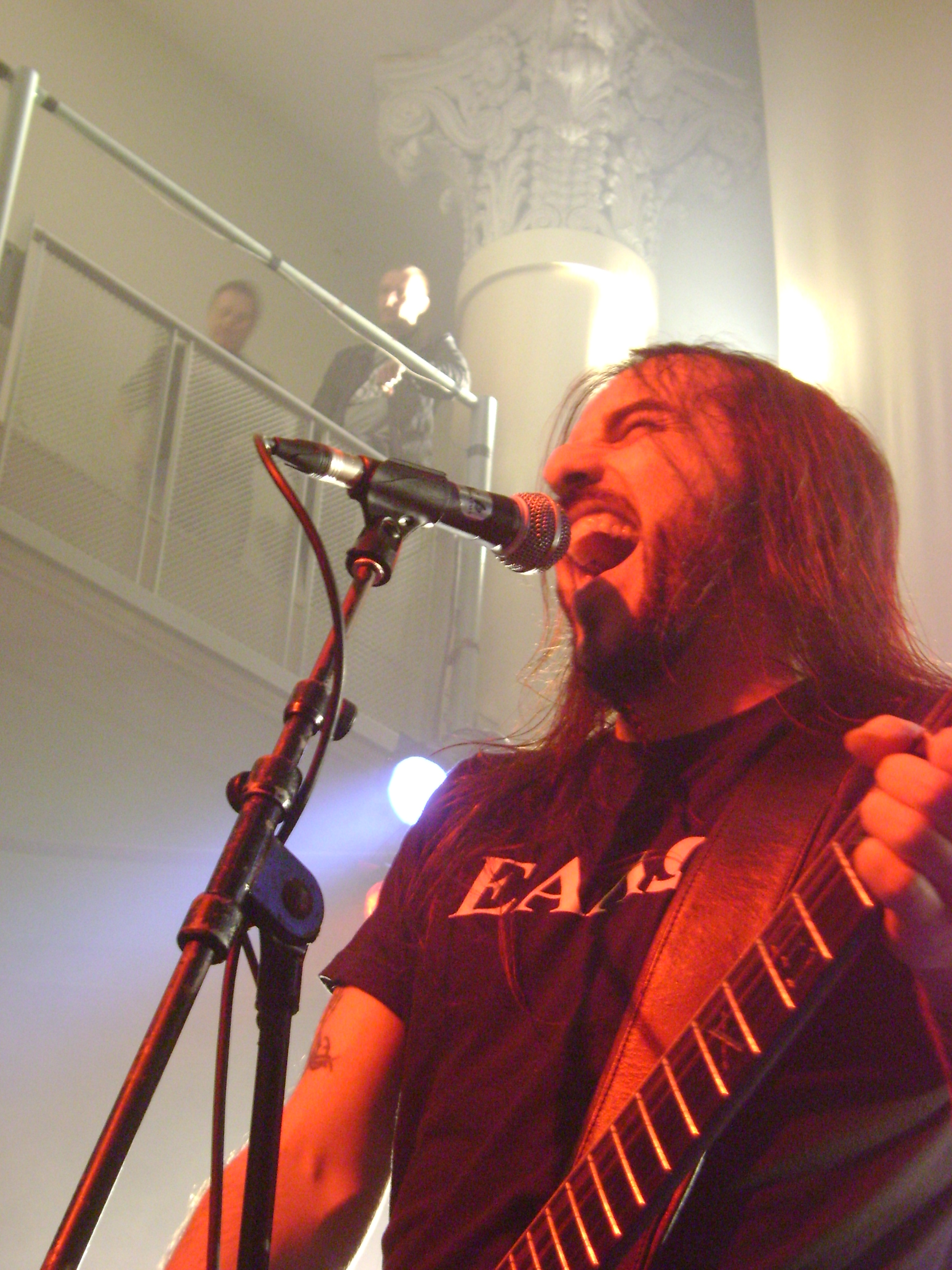 Sakis Tolis, singer and guitarist of the greek Melodic Black Metal band "Rotting Christ", performing in Leeuwarden, The Netherlands, during the band's 2010 tour with Samael, Finntroll and Metsatöll